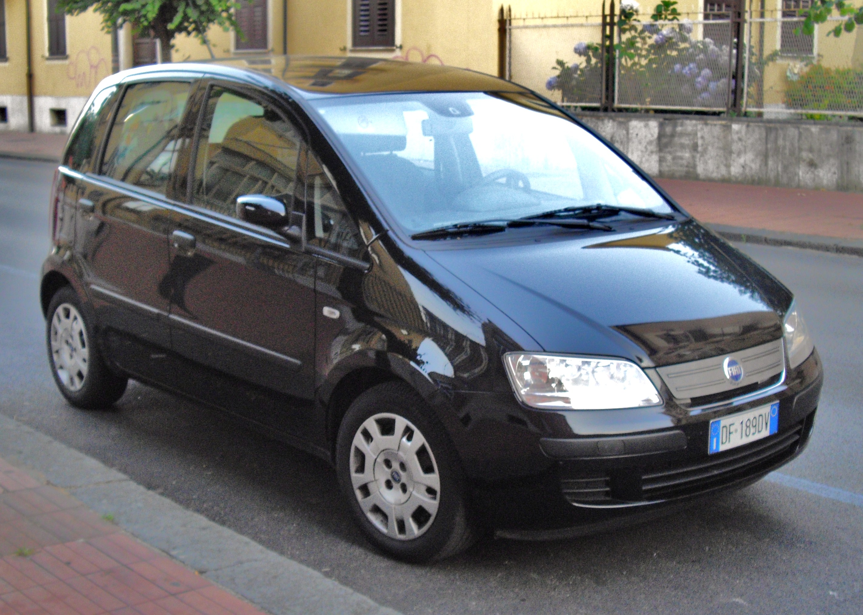 2006 Fiat Idea front